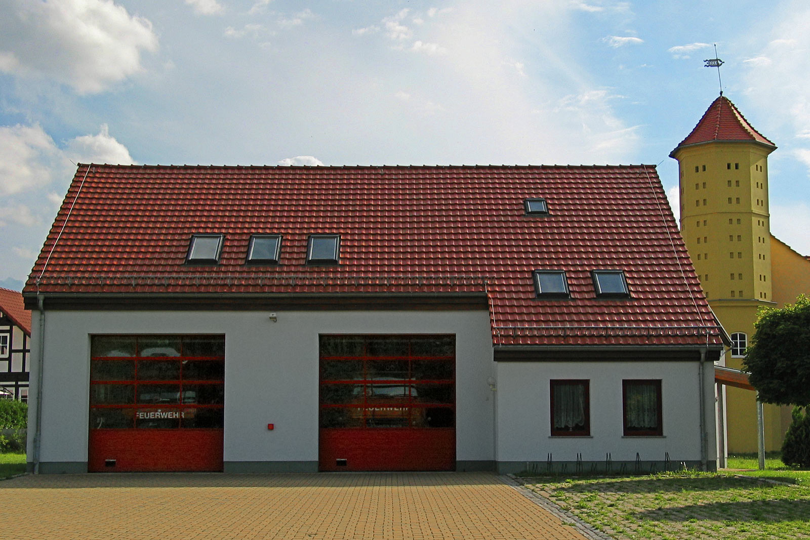 Volunteer fire department in Gebelzig, municipality of Hohendubrau, east Saxony, Germany. The tower on the right belongs to the former castle. See also “Elementary School Hohendubrau”.